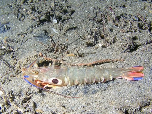 Sicyonia penicillata Lockington, 1878a ; a shrimp in the family Sicyoniidae